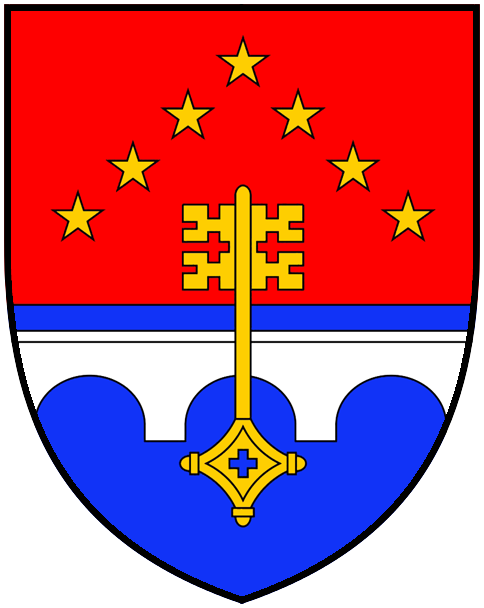 Coat of arms of Clos du Doubs, Canton of Jura, SwitzerlandEsperanto: Blazono de Clos du Doubs, Ĵuraso, Svislando